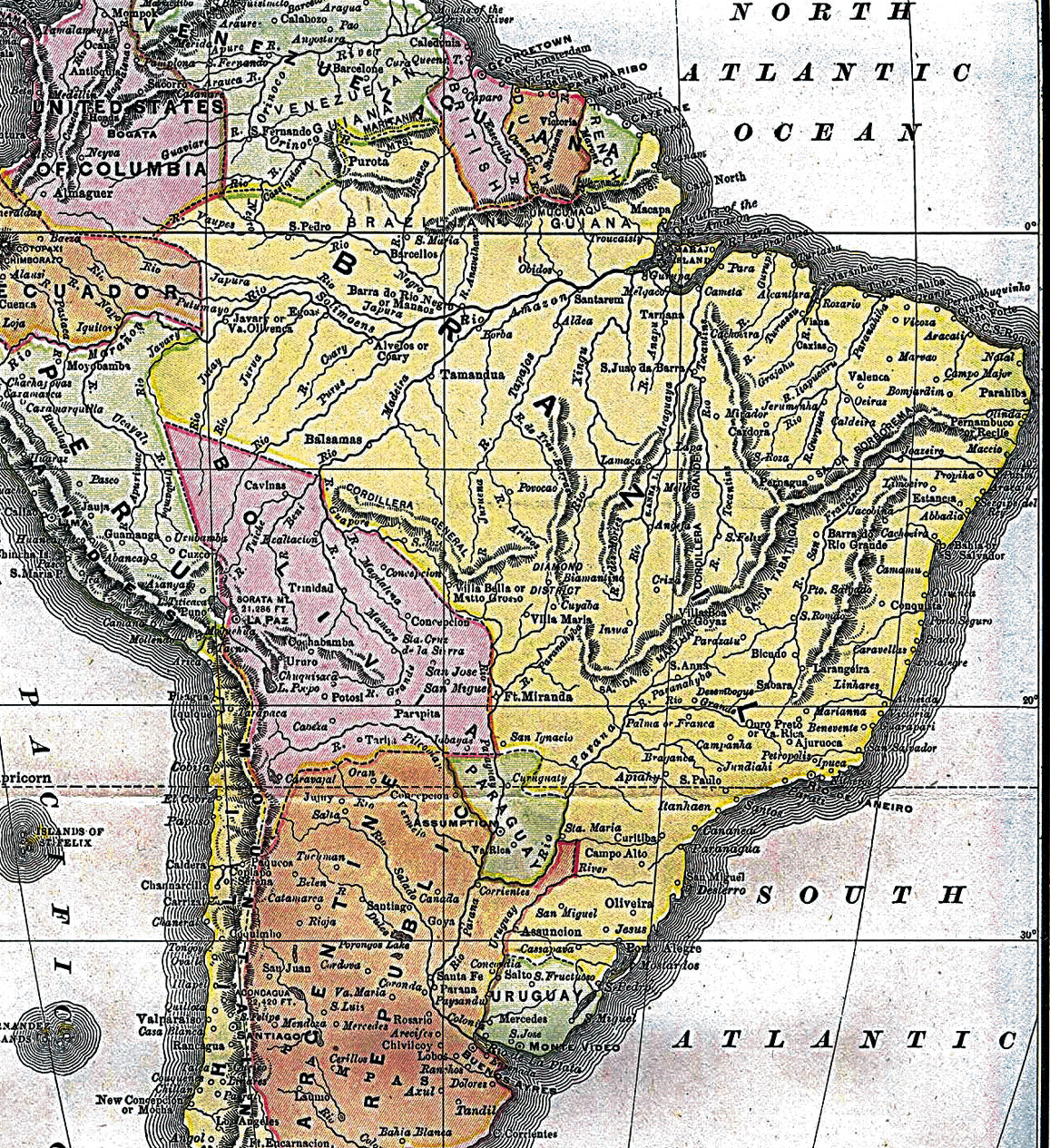 Map of Brazil during the First Republic, 1892. Note the different borders from current ones mainly in the Pantanal and Amazon basin areas — and the lack of Acre, then still part of Bolivia.